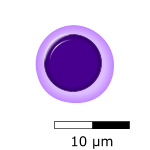 Hemocytoblast (hematopoietic cell)